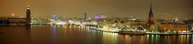 A panorama view over stockholm city at new years eve. Shot out from Mariaberget over Riddarfjärden in Stockholm city.